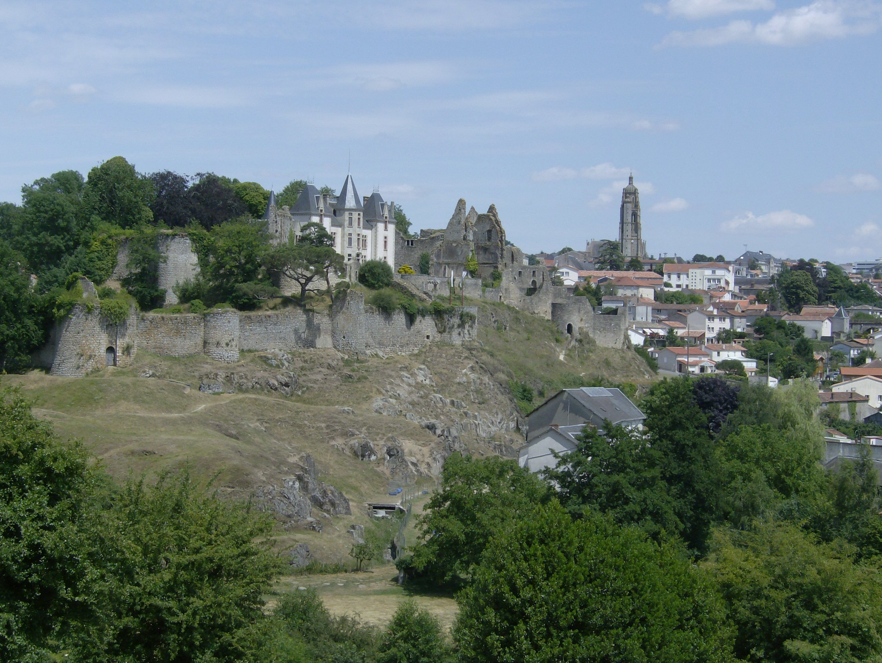 Bressuire view